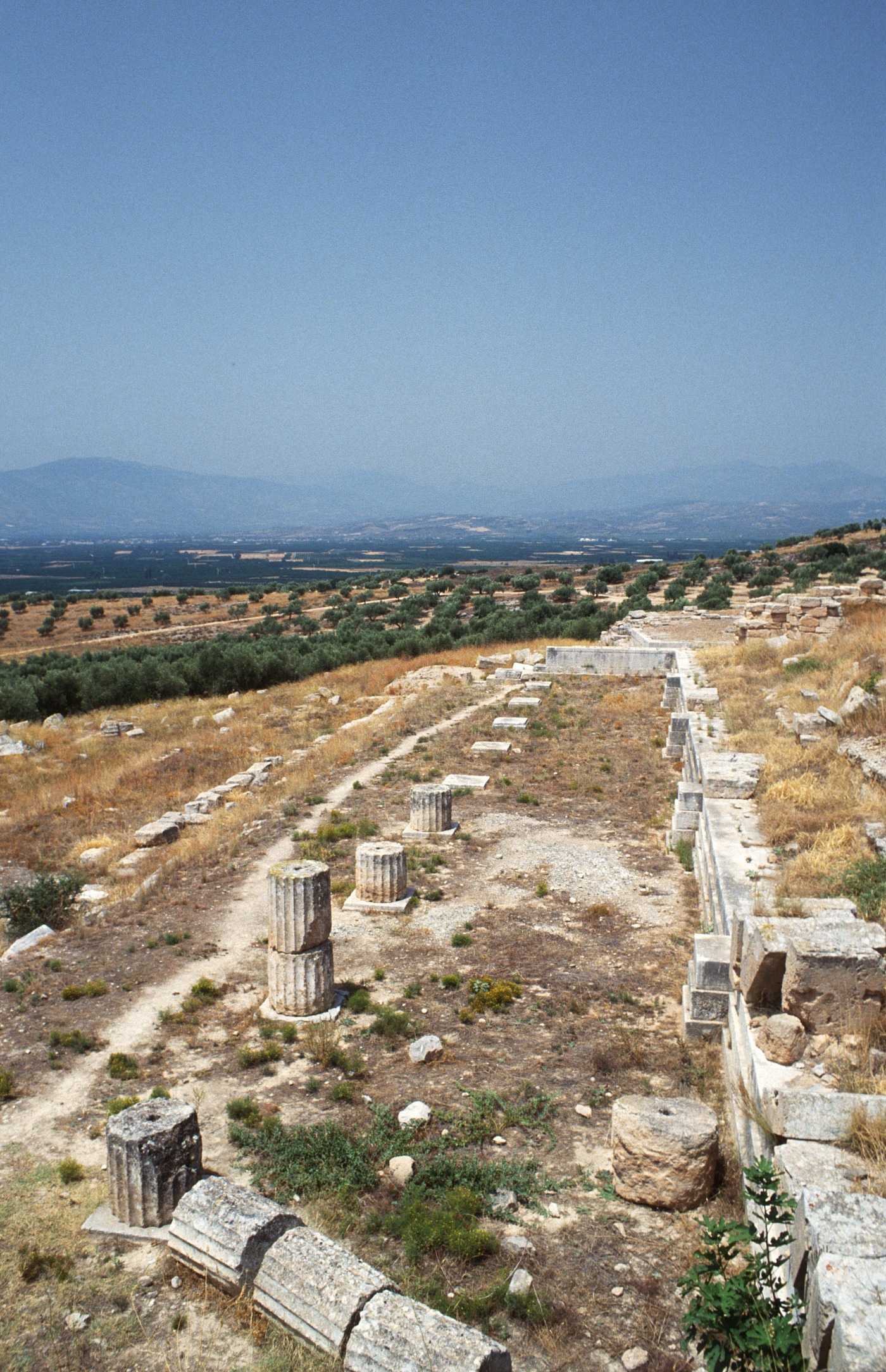 Heraion of Argos in 1993. (Scan from slide)